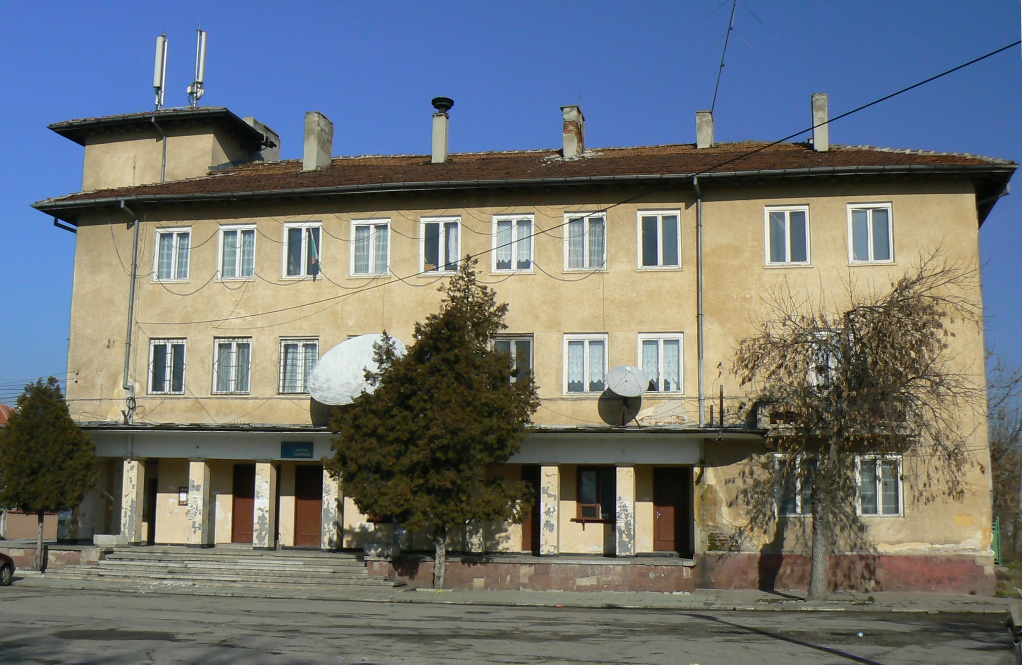 Mayor's office of village Kazichene, Bulgaria